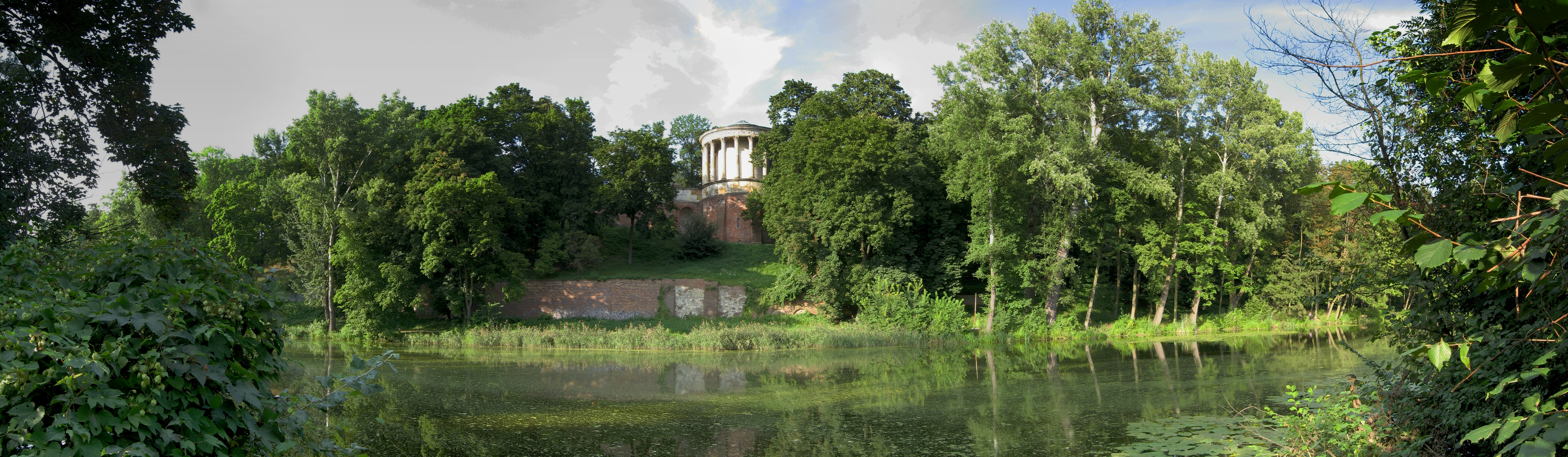 The wide panorama photo of Sybil Temple in Pulawy, Poland. Taken from opposite side of the "Lacha" (former river bed of Vistula river).